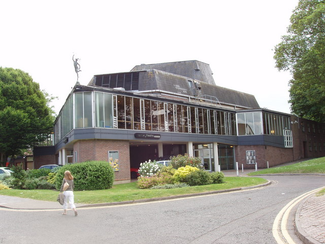 Mercury Theatre in Colchester. Built in 1972, designed by Norman Downie. See also theatre website